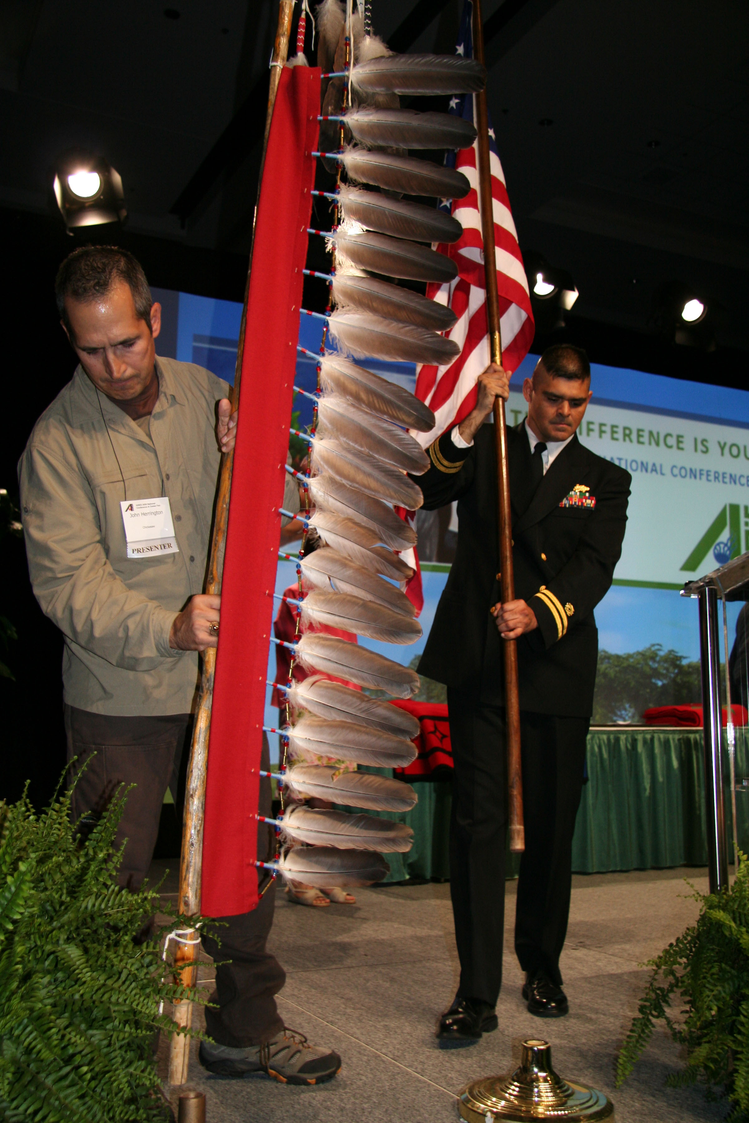 PORTLAND, Ore. (Oct. 29, 2009) Former NASA Astronaut and retired Cmdr. John Herrington, left, presents the Eagle Staff while First Naval Construction Division Budgeting and Planning Officer Lt. Ken Vargas, right, presents the American flag during the presentation of colors at the opening ceremony of the American Indian Science and Engineering Society National Conference at the Oregon Convention Center. Herrington, the first American Indian in space is a member of the Chickasaw nation, and Vargas, is member of the Oklahoma Band Choctaw. The AISES mission is to substantially increase the representation of American Indian and Alaskan Natives in engineering, science and other related technology disciplines. (U.S. Navy photo by Mass Communication Specialist 2nd Class Lily Daniels/Released)